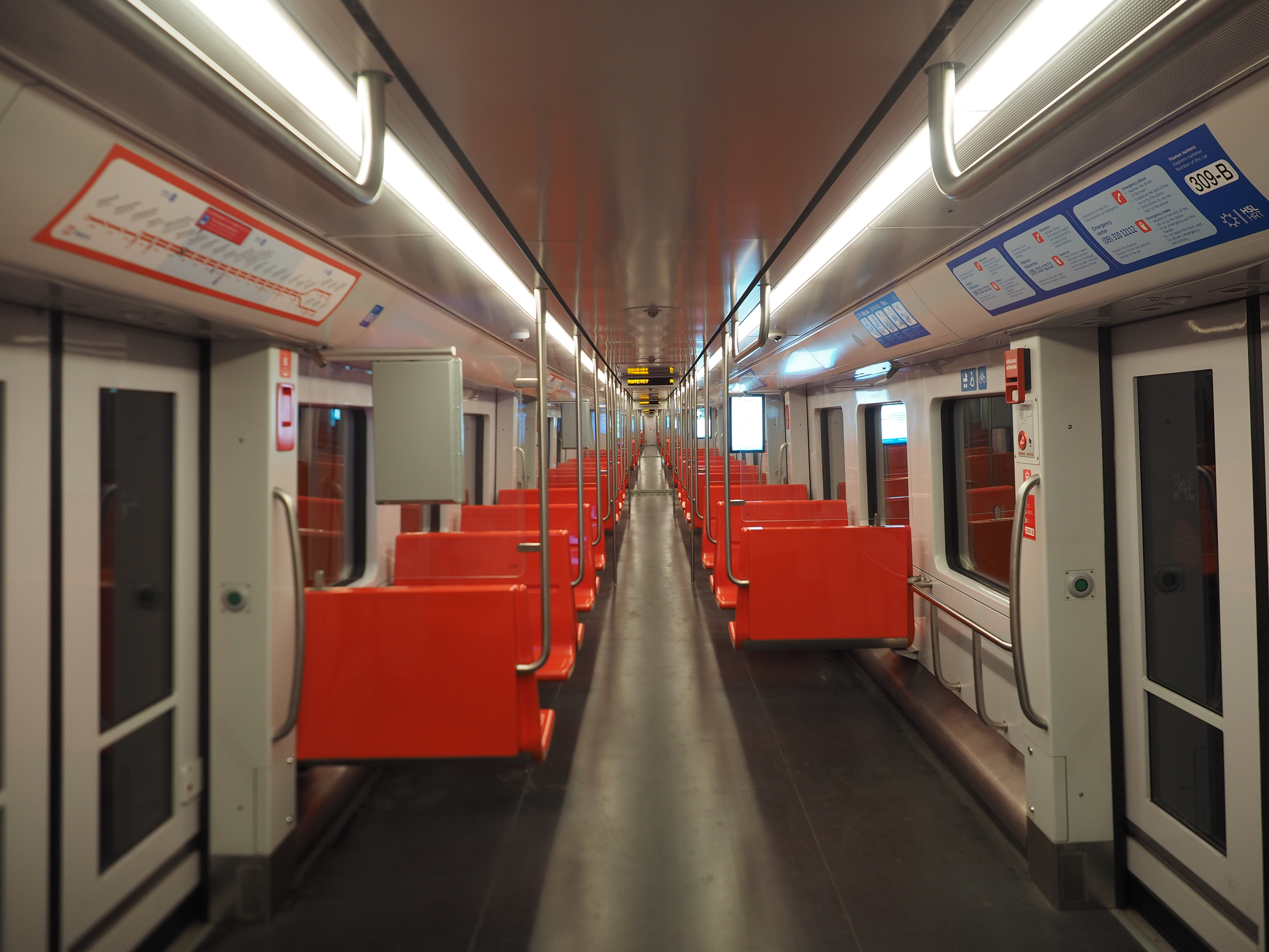 Interior of a Länsimetro train on a trip from Tapiola to Keilaniemi, showing the car I travelled in completely empty because of the ongoing COVID-19 situation.